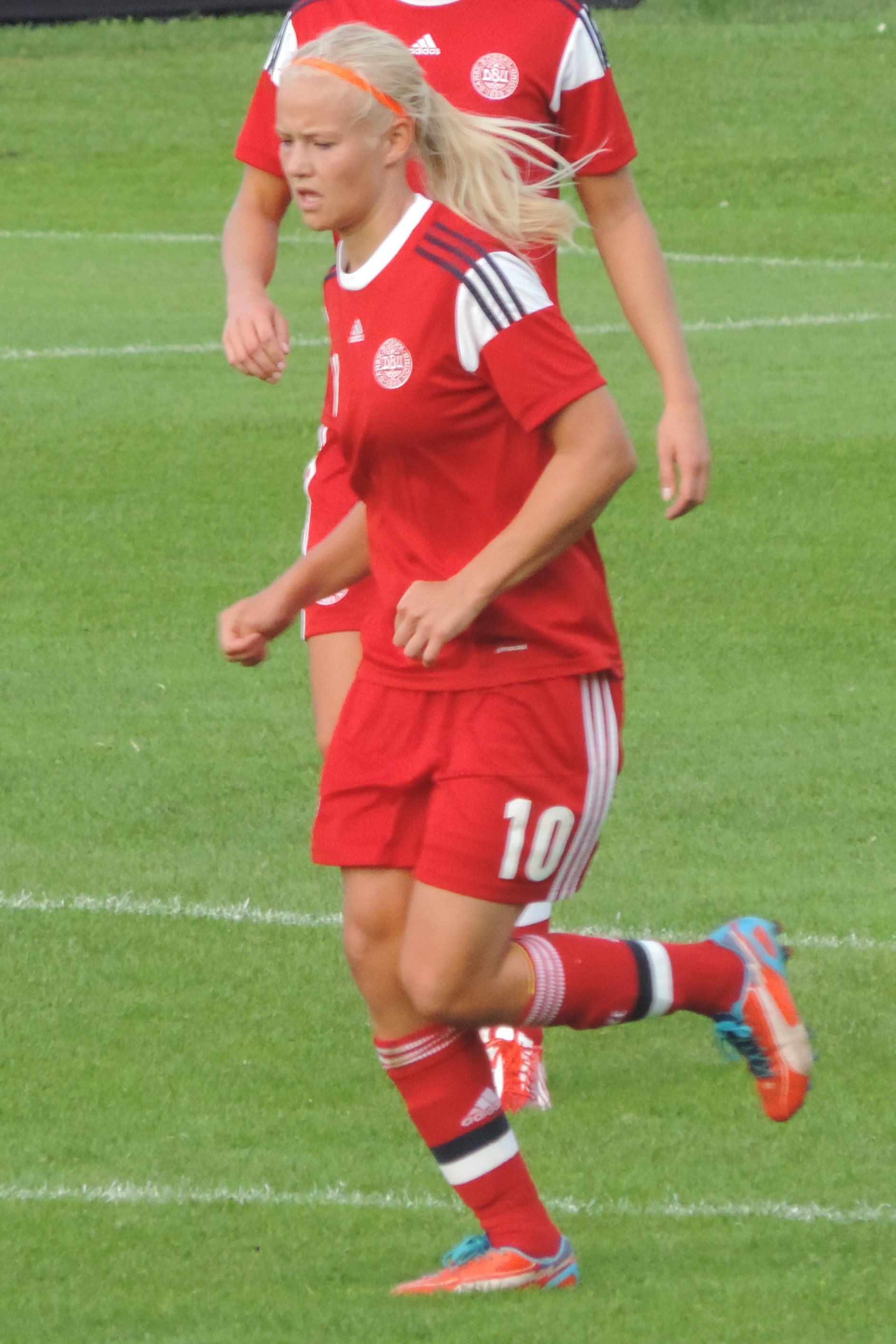 Pernille Harder Danish international football player. Hungary-Denmark 0-4